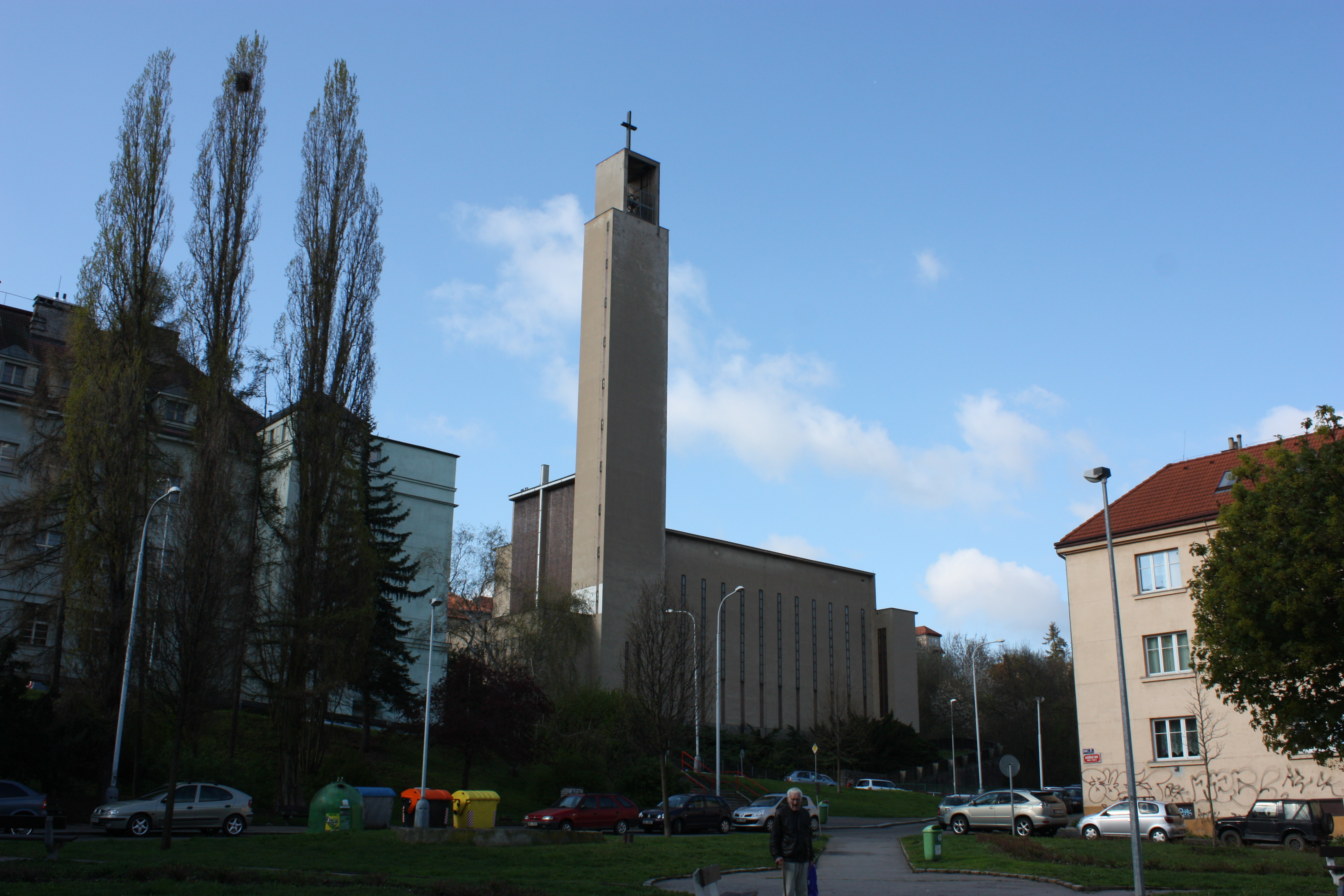 Church of St. John Nepomucene in Prague 5 - Košíře.